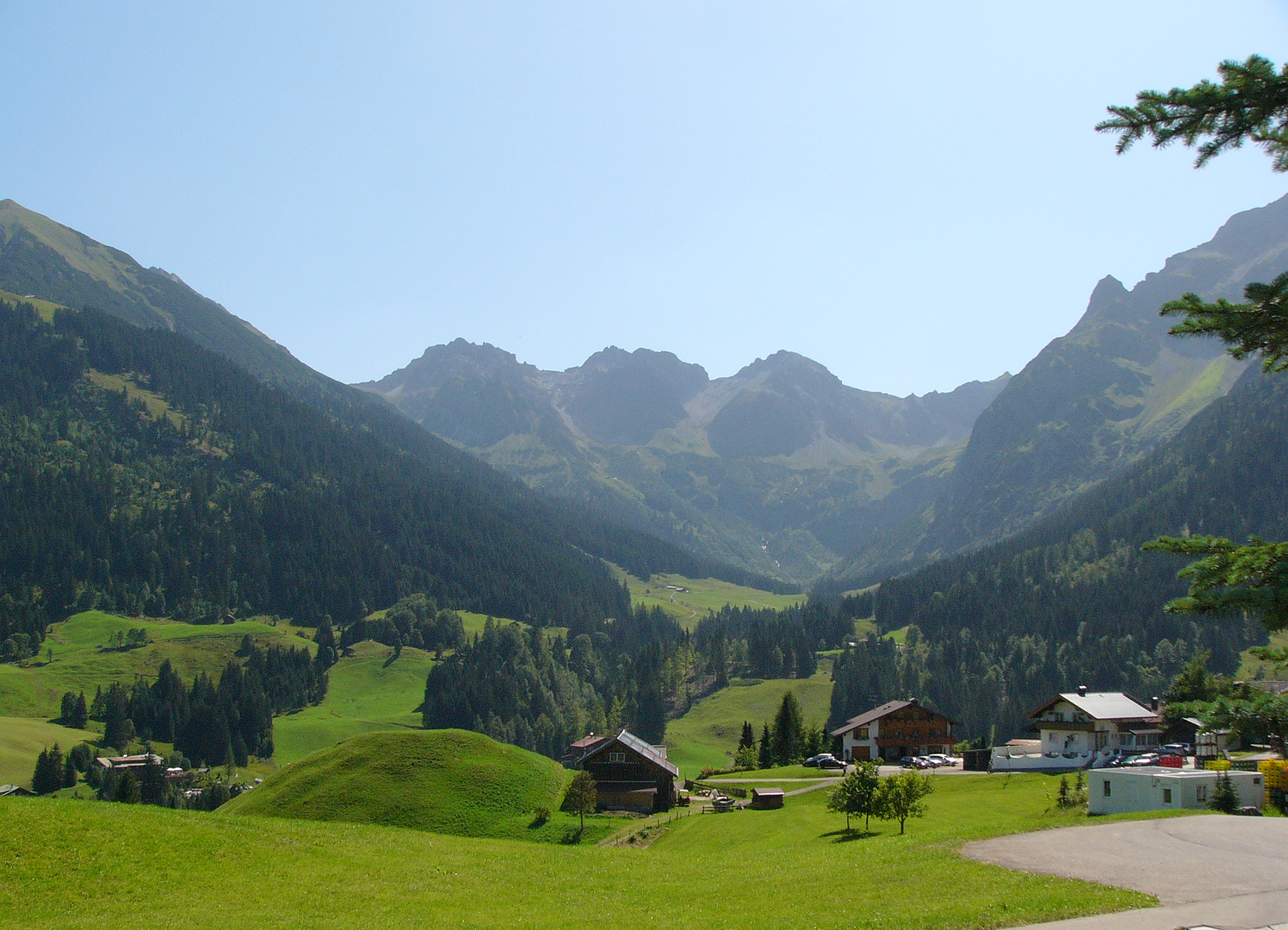 View from Mittelberg to the mountains Schafalpenköpfe, southeast of the Kleinwalsertal, a high valley in western Austria.